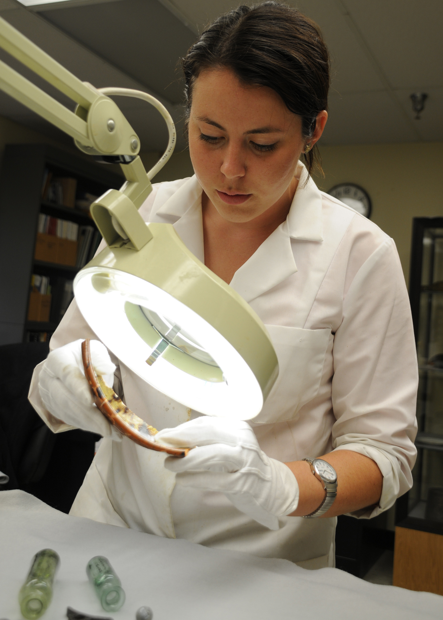 WASHINGTON (Aug.3, 2010) Kate Morrand, an artifact conservator at Naval History and Heritage Command, inspects a piece of pottery recovered from the wreck of the sloop-of-war USS Scorpion. The ship was scuttled in the Patuxent River during the War of 1812 to avoid capture by British forces. (U.S. Navy photo by Mass Communication Specialist 2nd Class Kenneth G. Takada/Released)